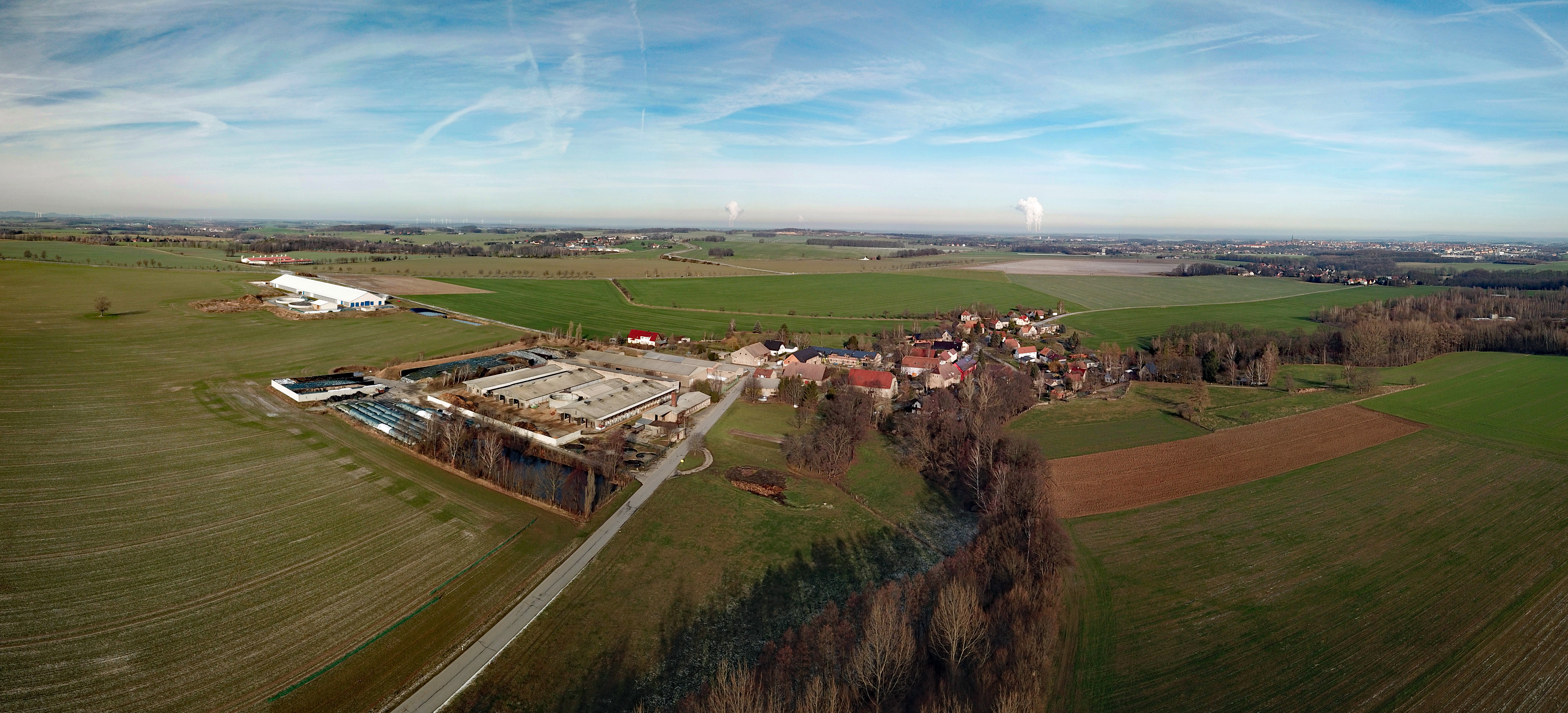 Techritz (Doberschau-Gaußig, Saxony, Germany) Hornjoserbsce: Powětrowy wobraz Ćěchorjec